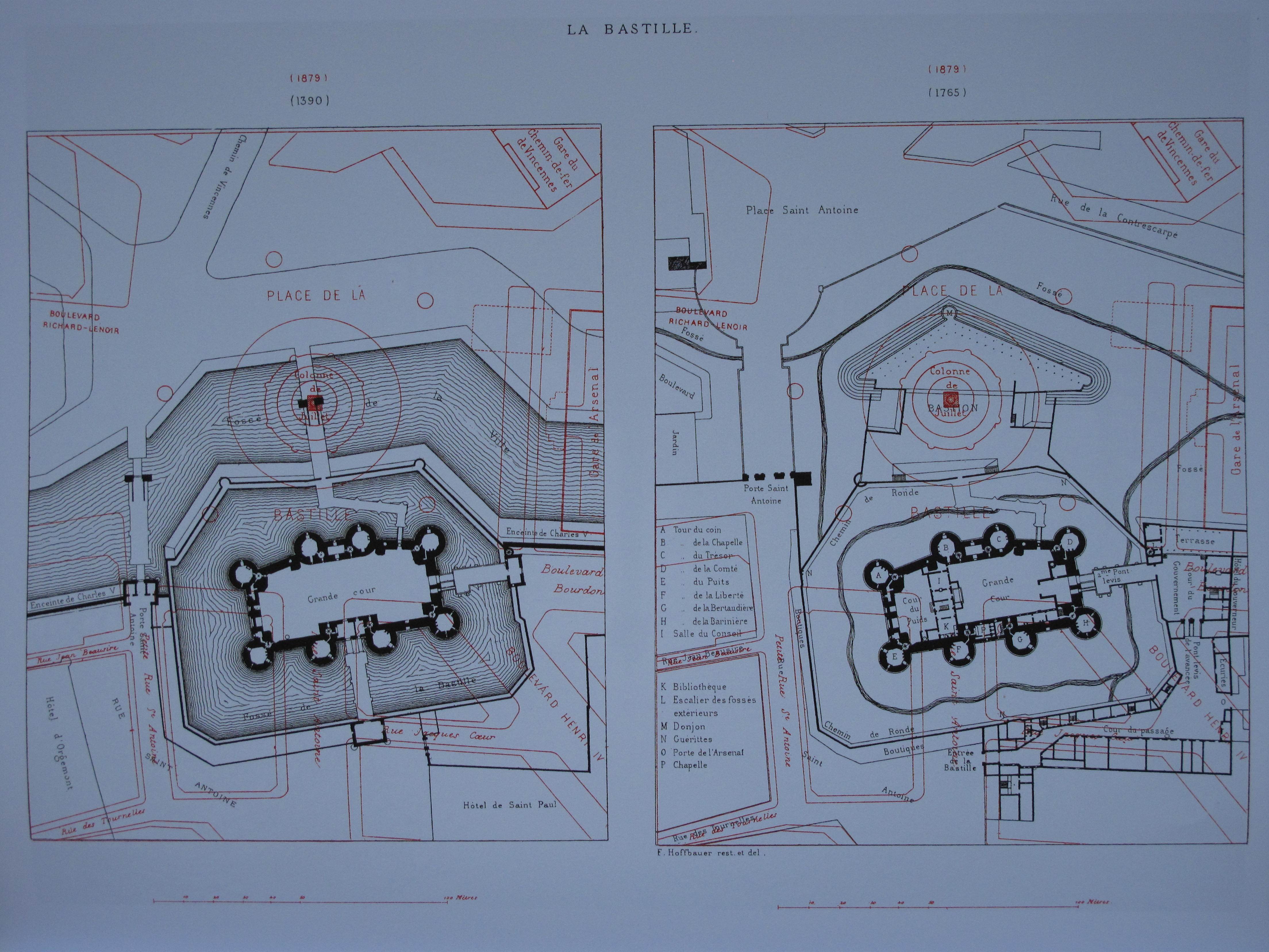 The quartier of la Bastille (Paris, France). On the left, the maps of 1390 and 1878. On the right, the maps of 1765 and 1878.